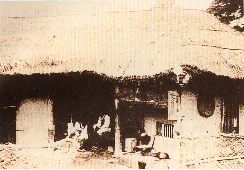 Photograph of 19th Century Korean Inn